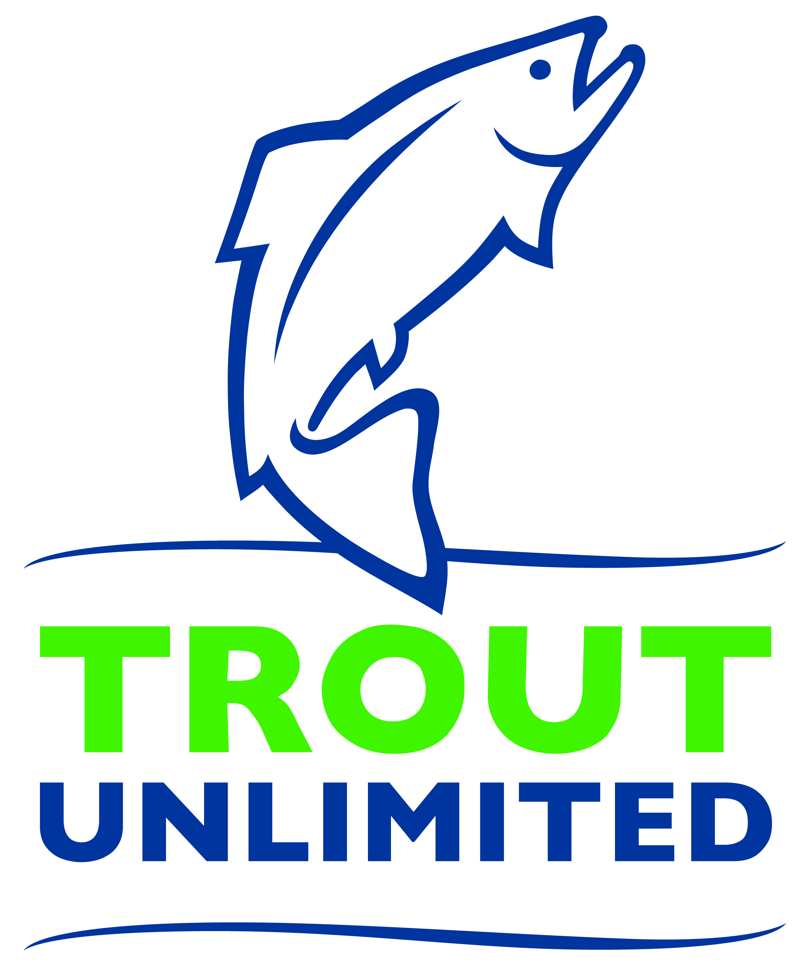 The Trout Unlimited logo